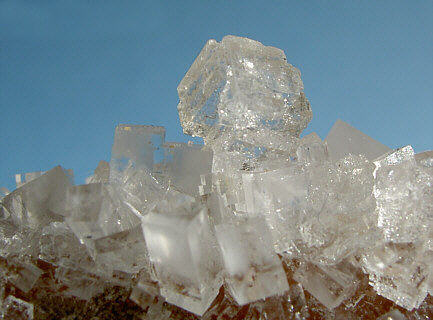 Halit crystals, also Salt crystals